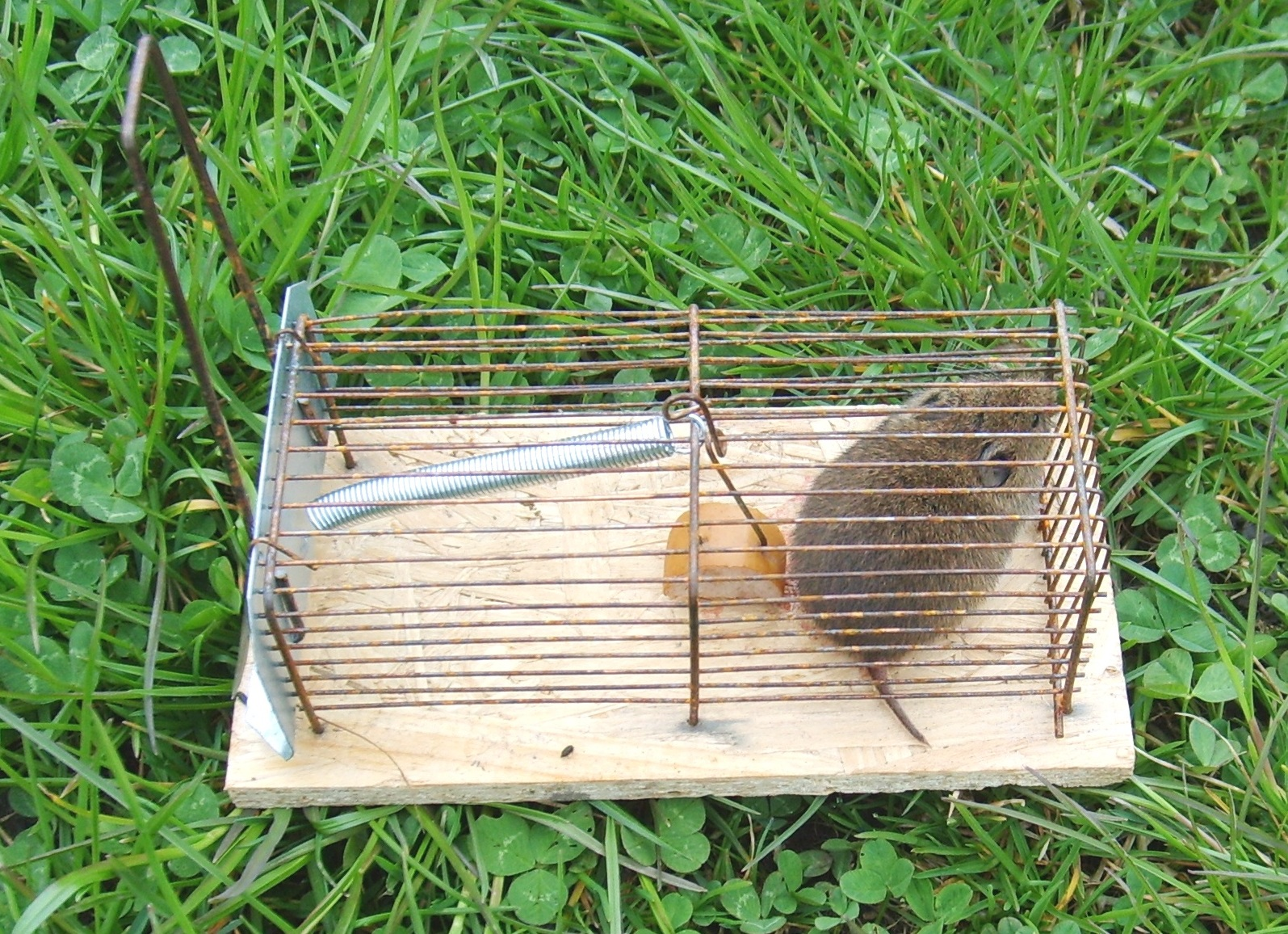 Microtus arvalis from Interlaken, Switzerland.